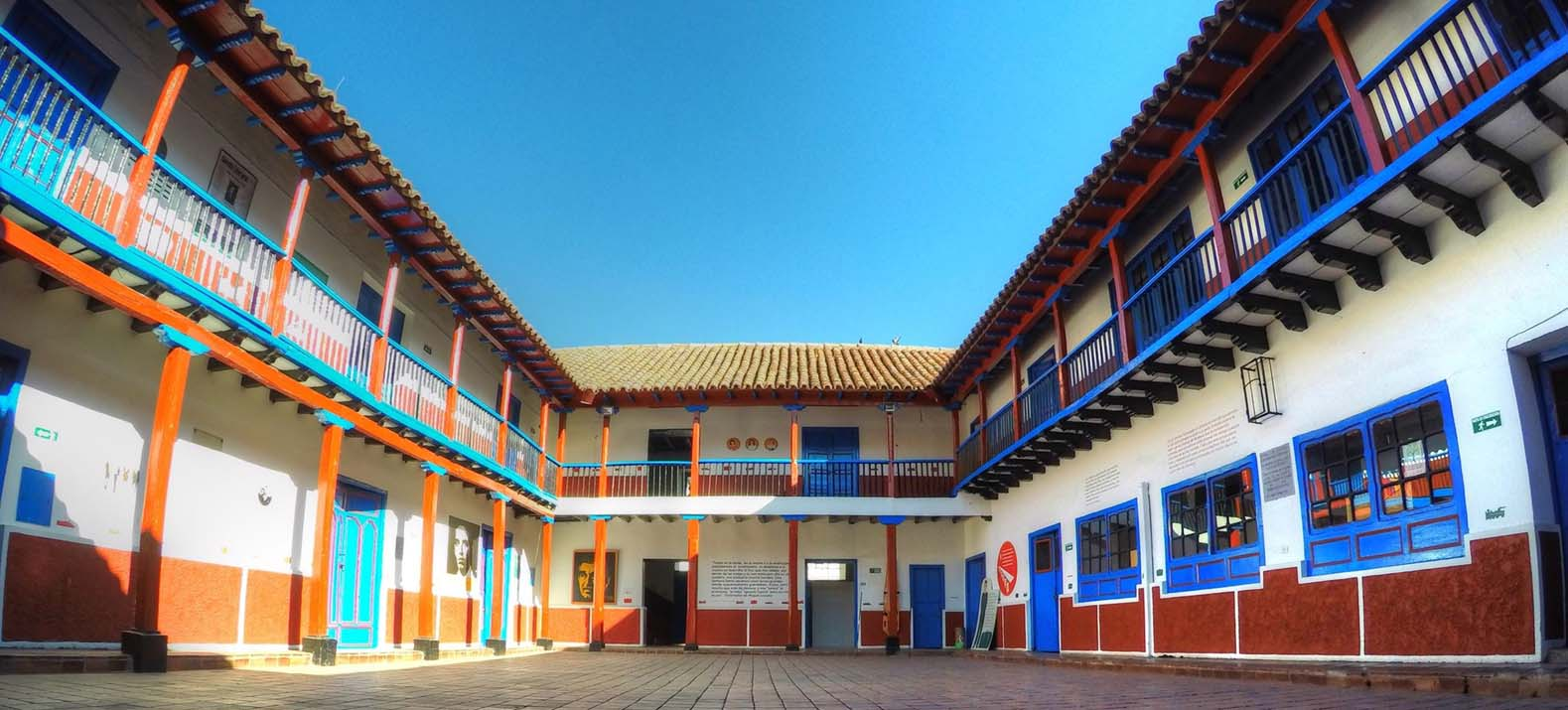 imcrdz